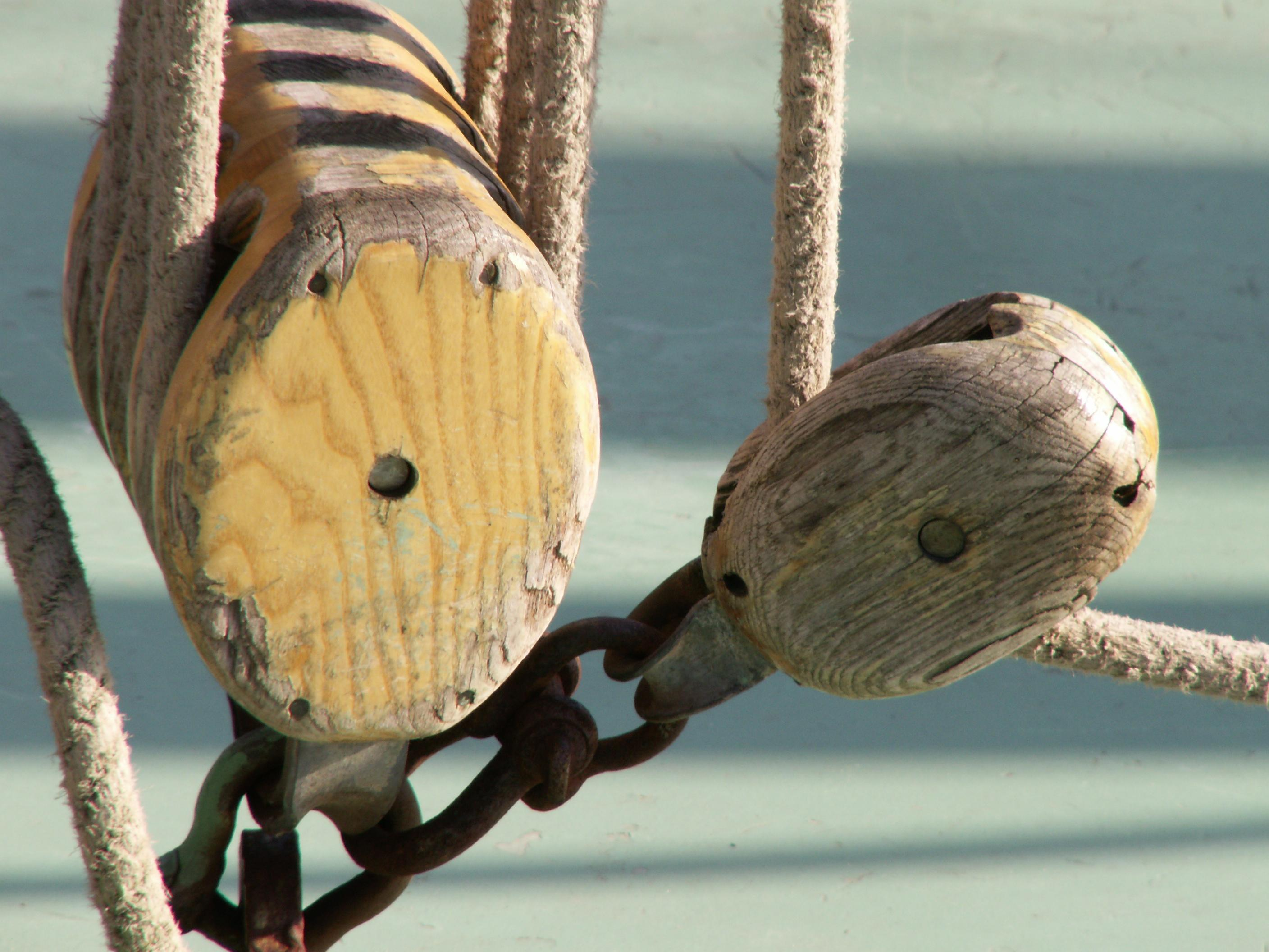 Photo of a pulley taken in the city of Kampen by user:GeeKaa